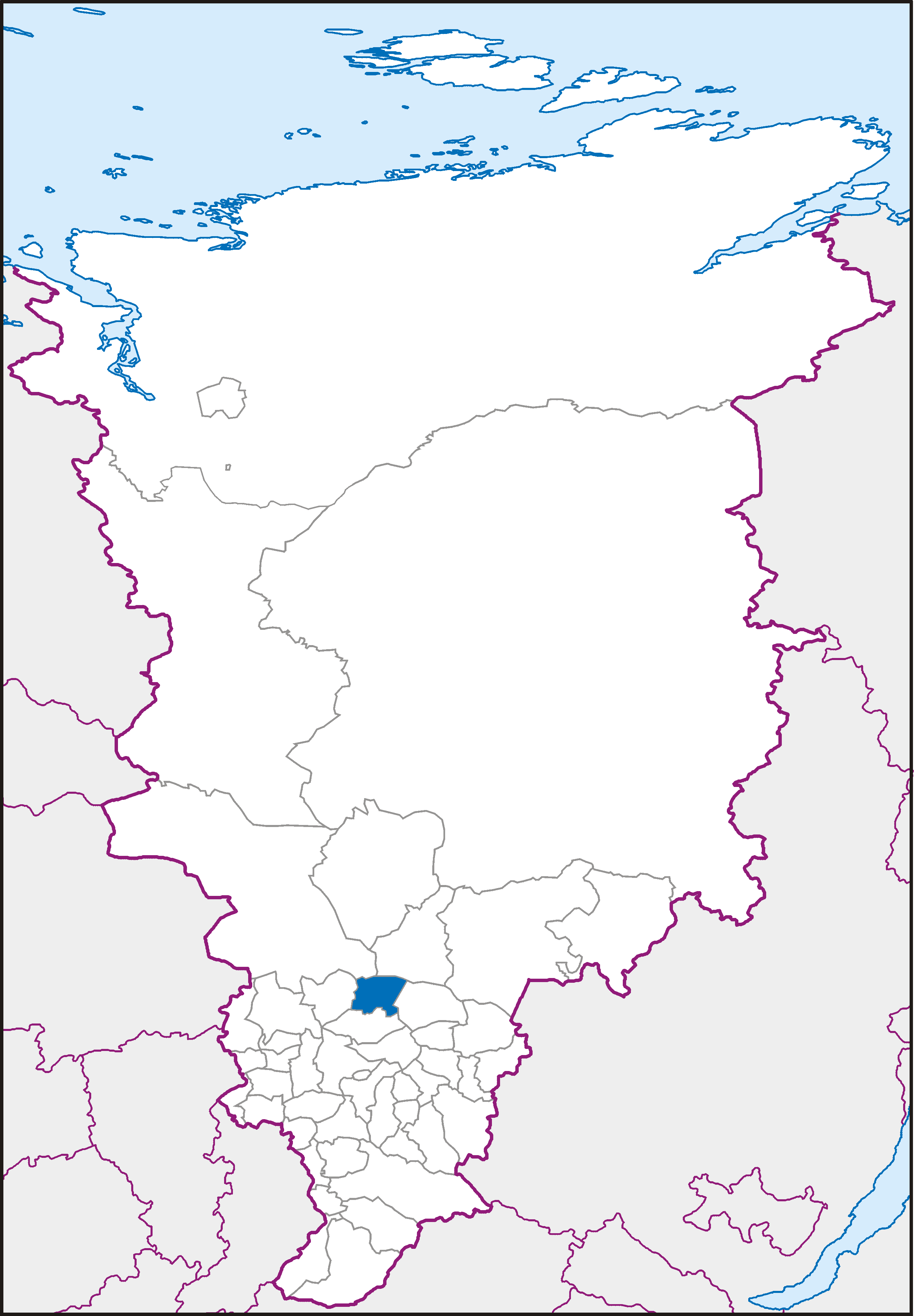 Map of Krasnoyarsk Krai in Albers Equal-Area Conic projection (Central Meridian = 95° E)